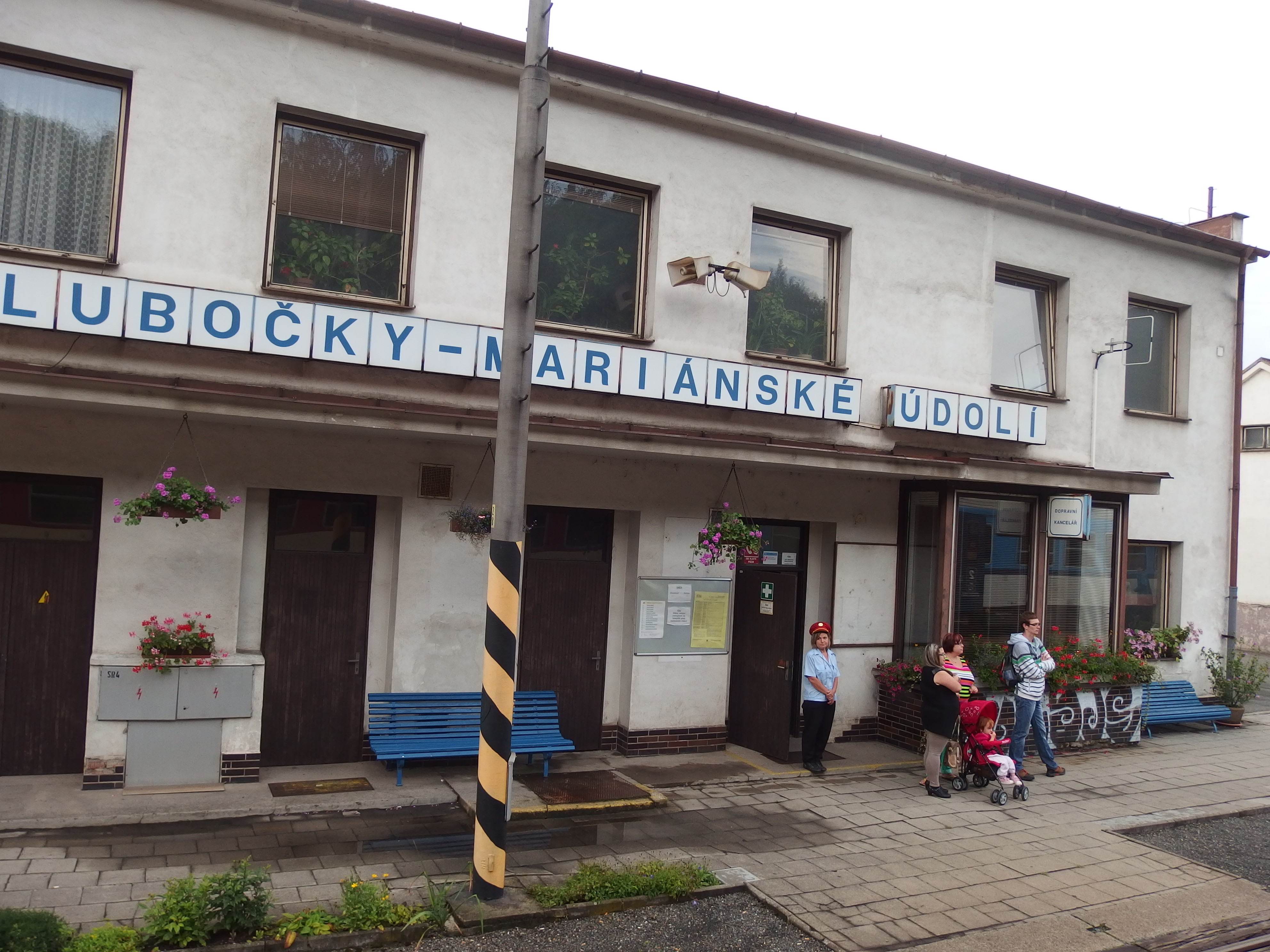 Hlubočky, Olomouc District, Czech Republic.